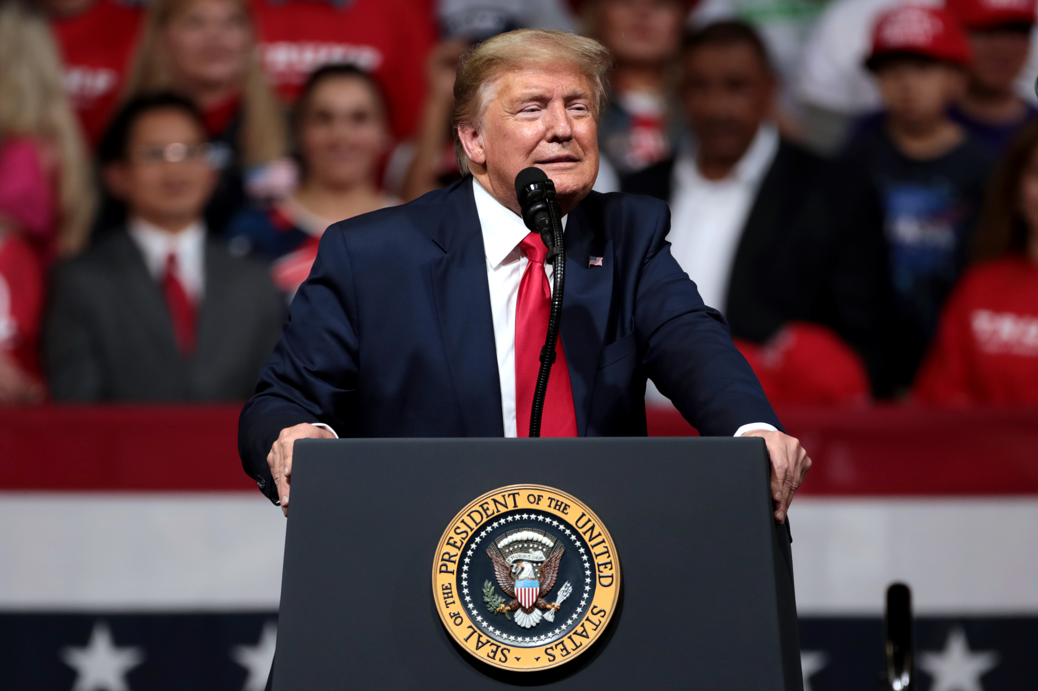 President of the United States Donald Trump speaking with supporters at a "Keep America Great" rally at Arizona Veterans Memorial Coliseum in Phoenix, Arizona.